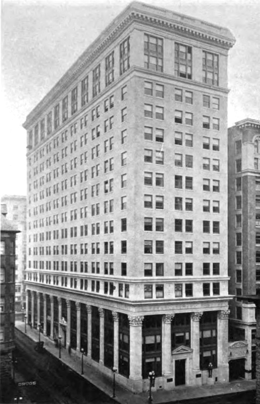 The Northwestern National Bank Building (south and east sides, corner of 6th & Morrison), in Portland, Oregon, circa 1913, the year in which it was completed. At left, a small portion of the Portland Hotel is visible, and at right, part of the Selling Building can be seen.